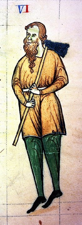 Diarmait McMurrough, king of Leinster, as depicted in the margins of Giraldus Cambrensis's Expugnatio.